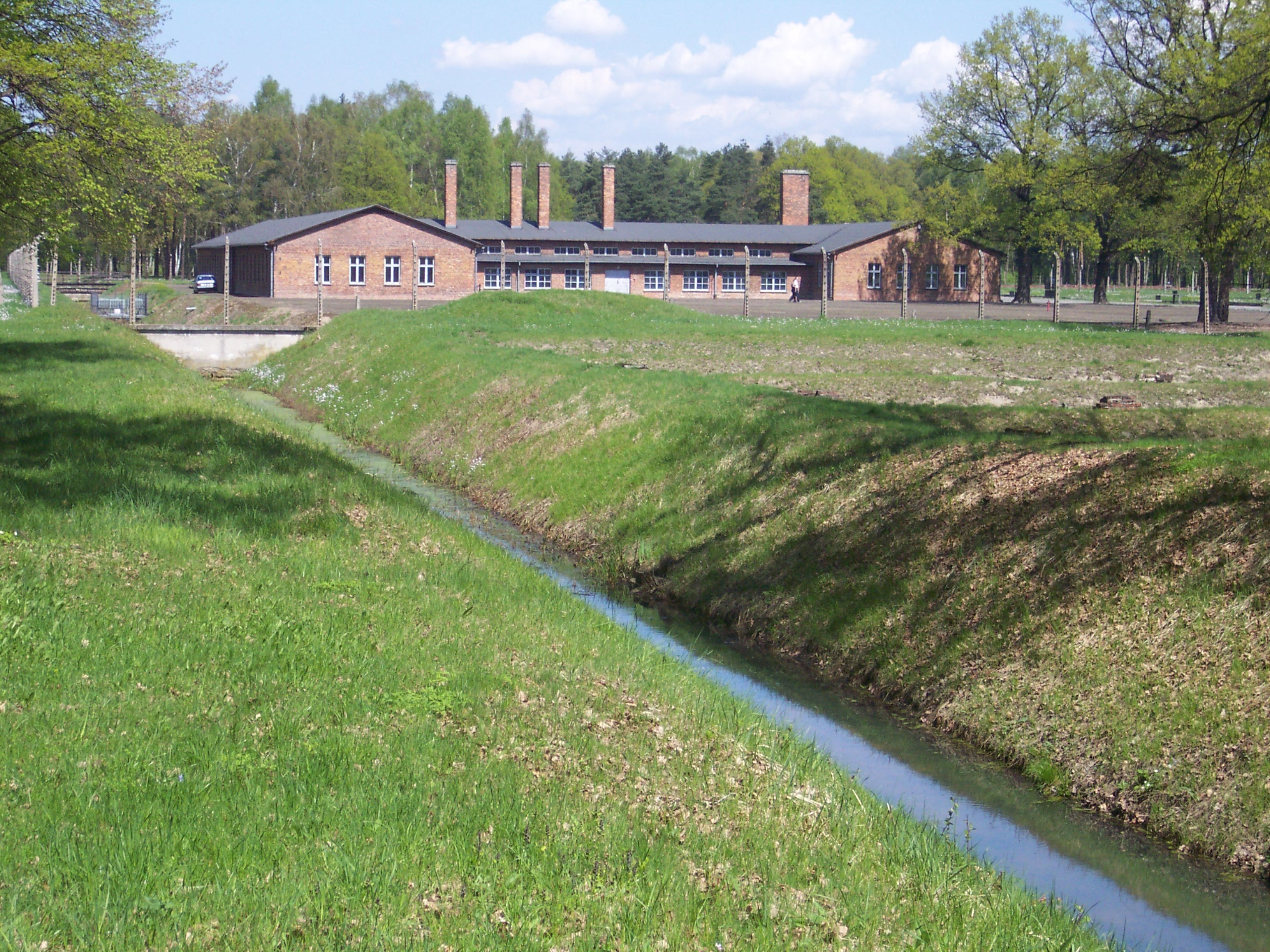 Concentration camp Auschwitz II Birkenau